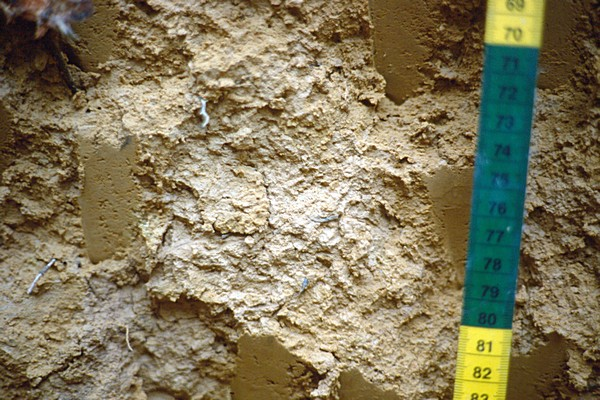 Clay skins in ferric Acrisol in Dipterocarp forest East Kalimantan Indonesia